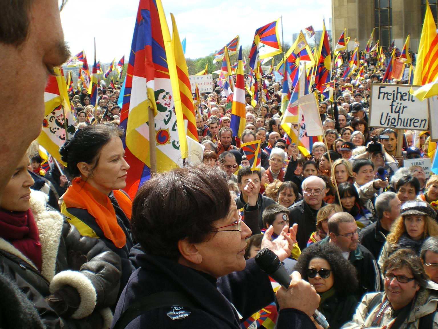 Souhayr Belhassen, president of the FIDH, at a gathering in Germany, in support of Human Rights in China